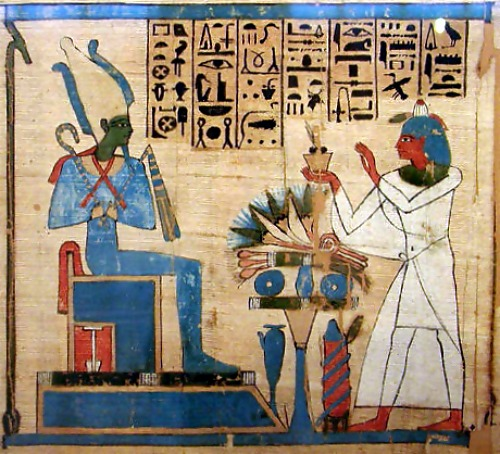 The god Osiris receiving offerings. Modification of File:Hieratic Book of the Dead of Padiamenet.jpg; cropped and colors enhanced